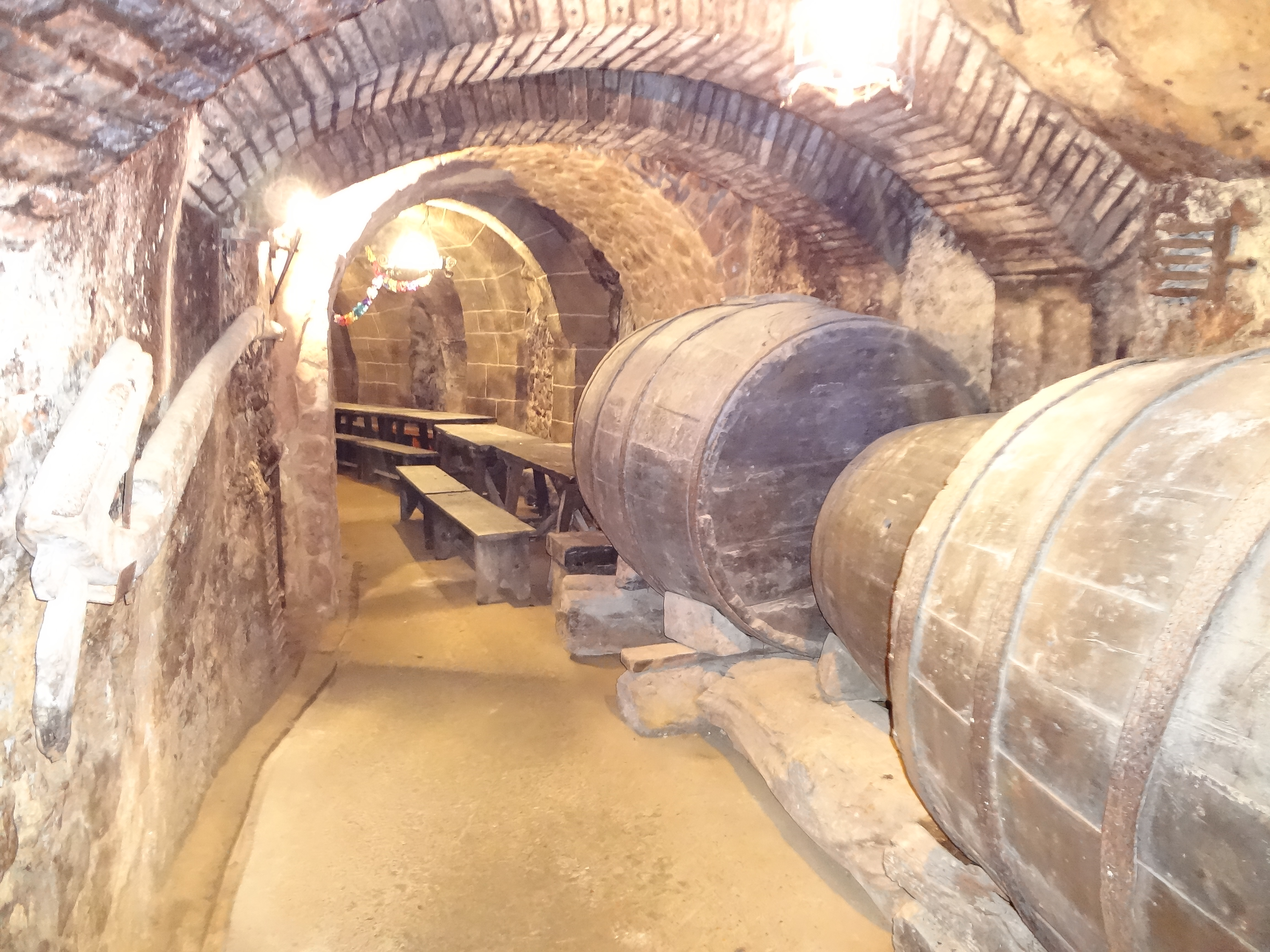 Peña El Chilindrón, Aranda de Duero, España Underground Wine Cellar Underground Wine Cave Bodega de Vino Photography by David Adam Kess